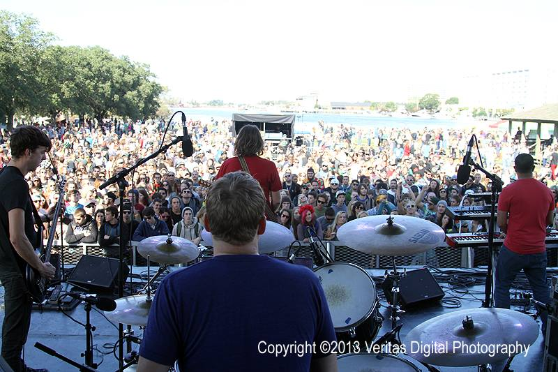 Picture taken by Jason Martin at The Cali Roots: Carolina Sessions in Wilmington, NC on 10.26.13